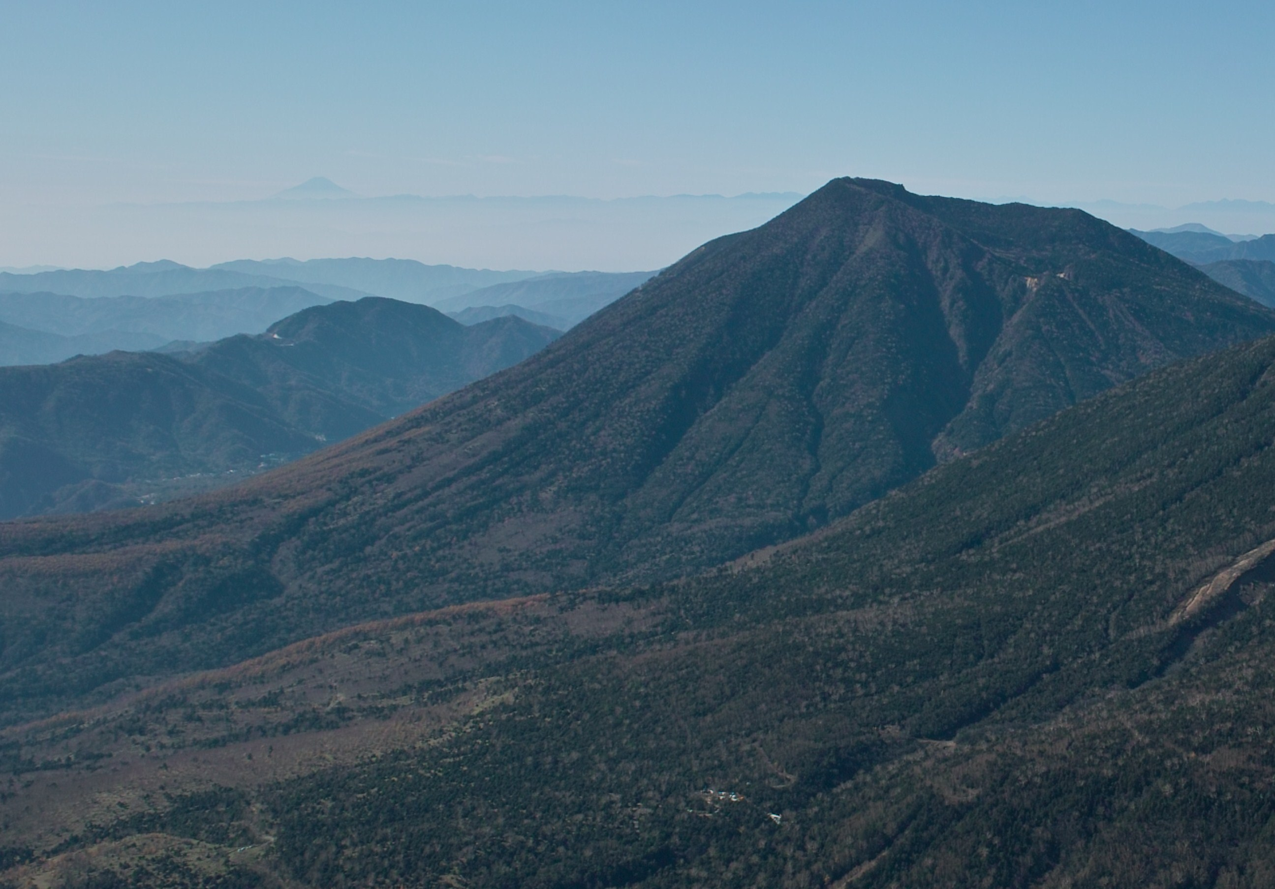 Japan: the mounts Fuji and Nantai from mount Nyōhō in Nikkō (Tochigi prefecture).